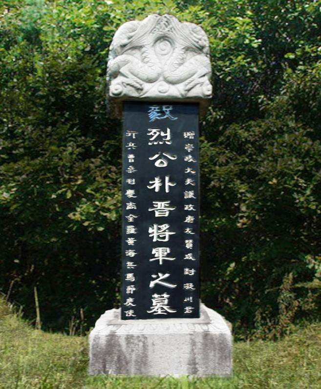 Tomb of General Pakj jin, Korean Joseon Dynusty's General